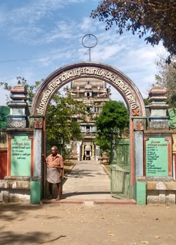 Tiruvelvikkudi kalyana sundaresvarar temple திருவேள்விக்குடி கல்யாணசுந்தரேஸ்வரர் கோயில்